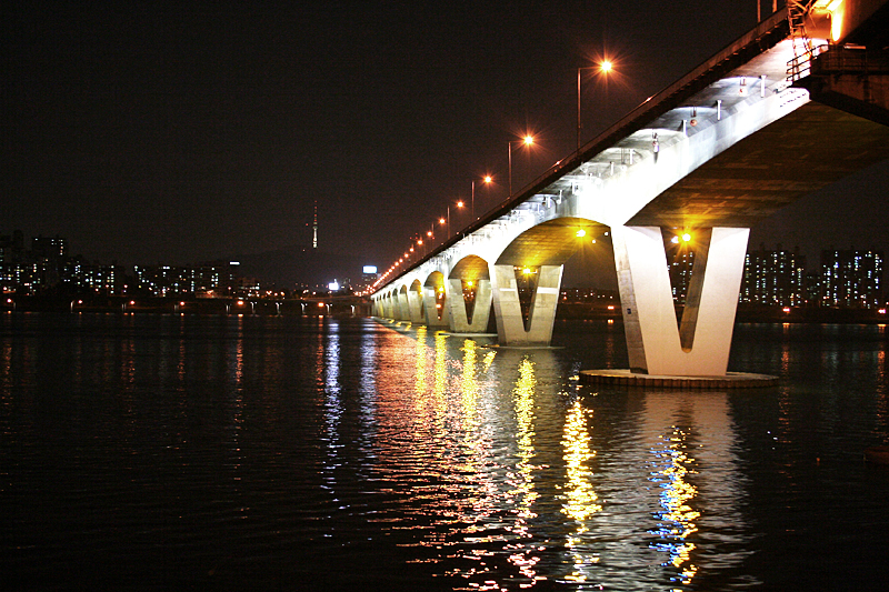 A view of Wonhyo Bridge over Han River in Seoul, South Korea at night in 2006.